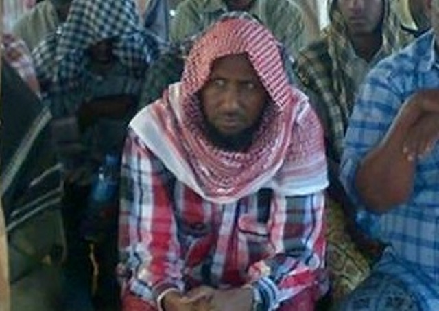 Image of Ahmad Umar taken from U.S. State Dept. poster headed "Wanted Information that brings to justice..." and subheaded after Umar's name "Up to $6 Million Reward"